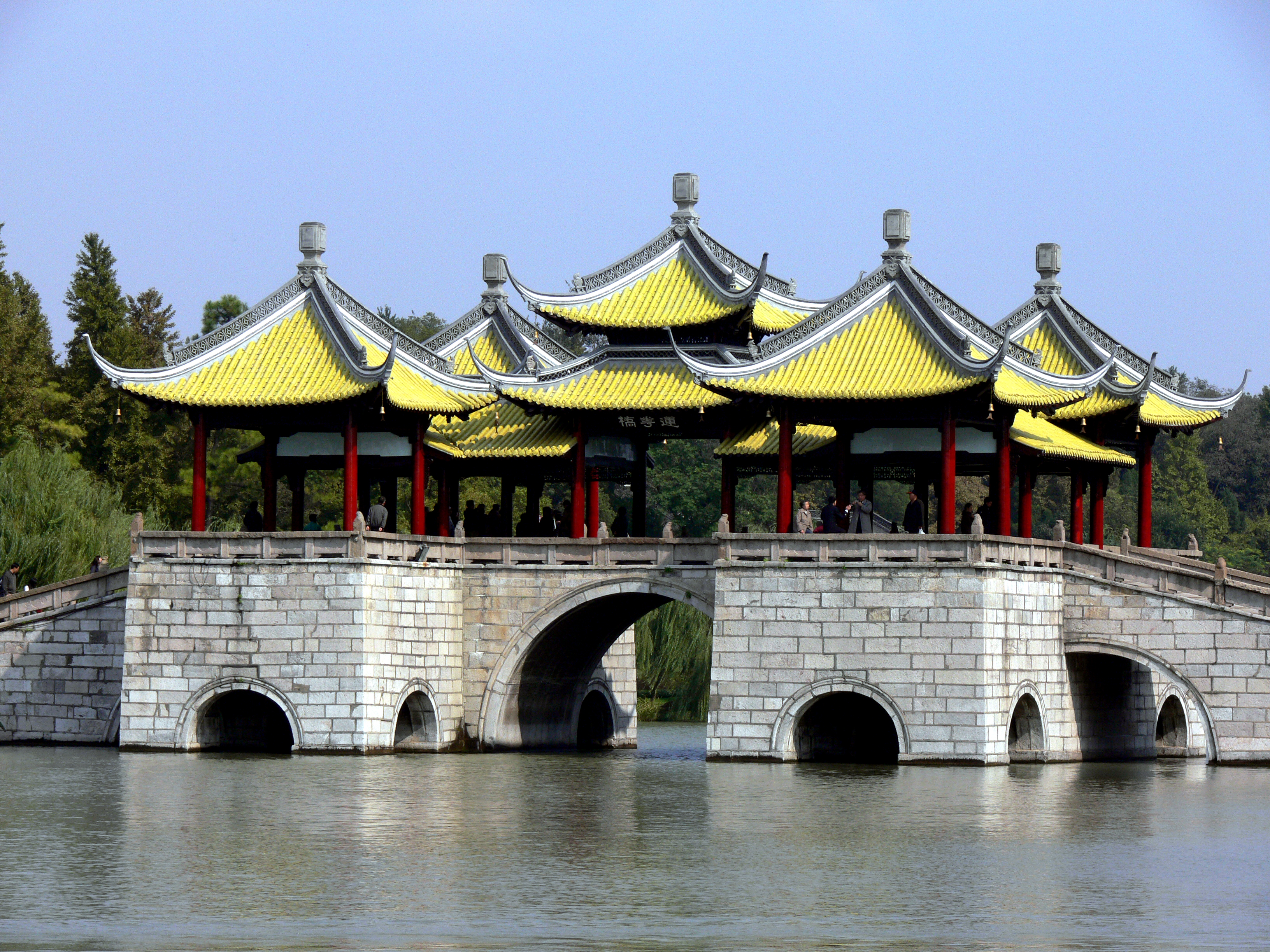 The Five Pavilion bridge of Yangzhou 扬州瘦西湖五亭桥